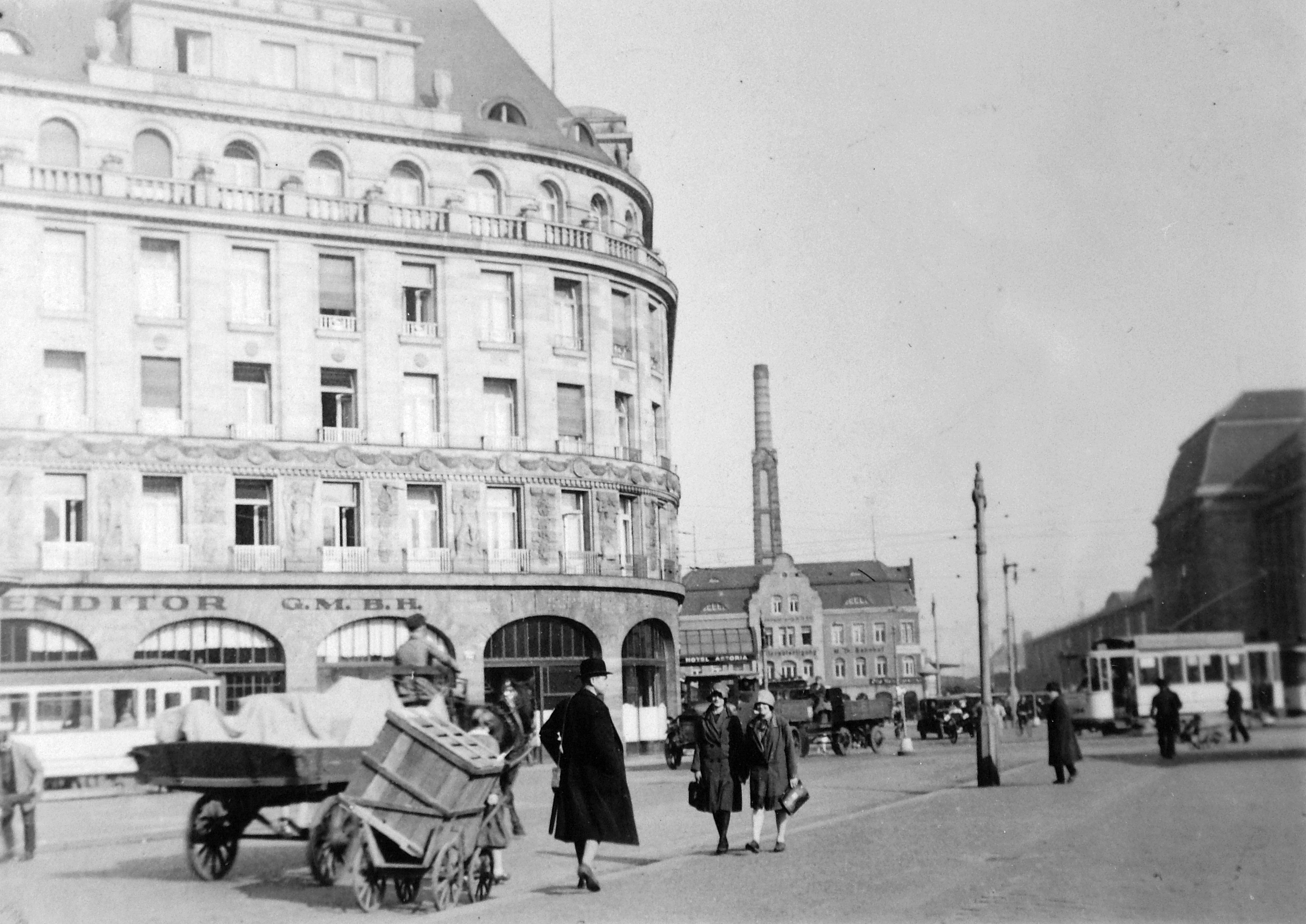 Location: Germany, Leipzig Tags: tram, street view, genre painting, Horse-drawn carriage, handbarrow, commercial vehicle